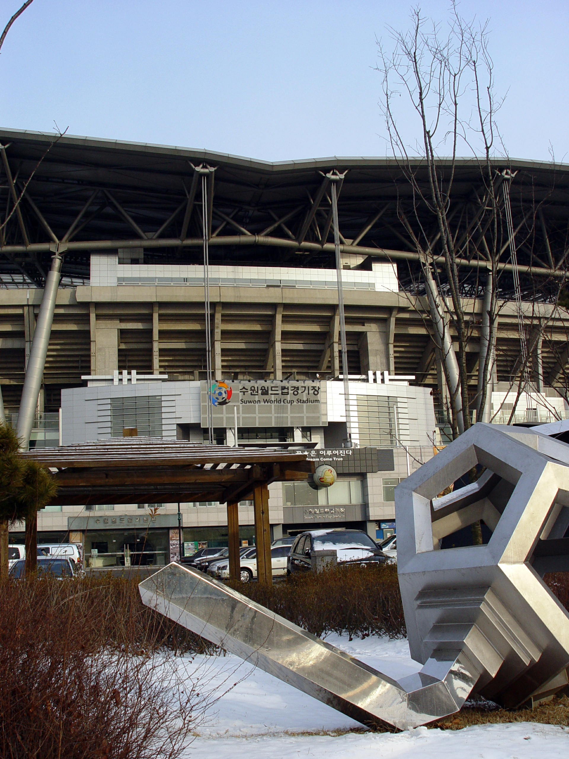 Entrance to Suwon World Cup Stadium, South Korea